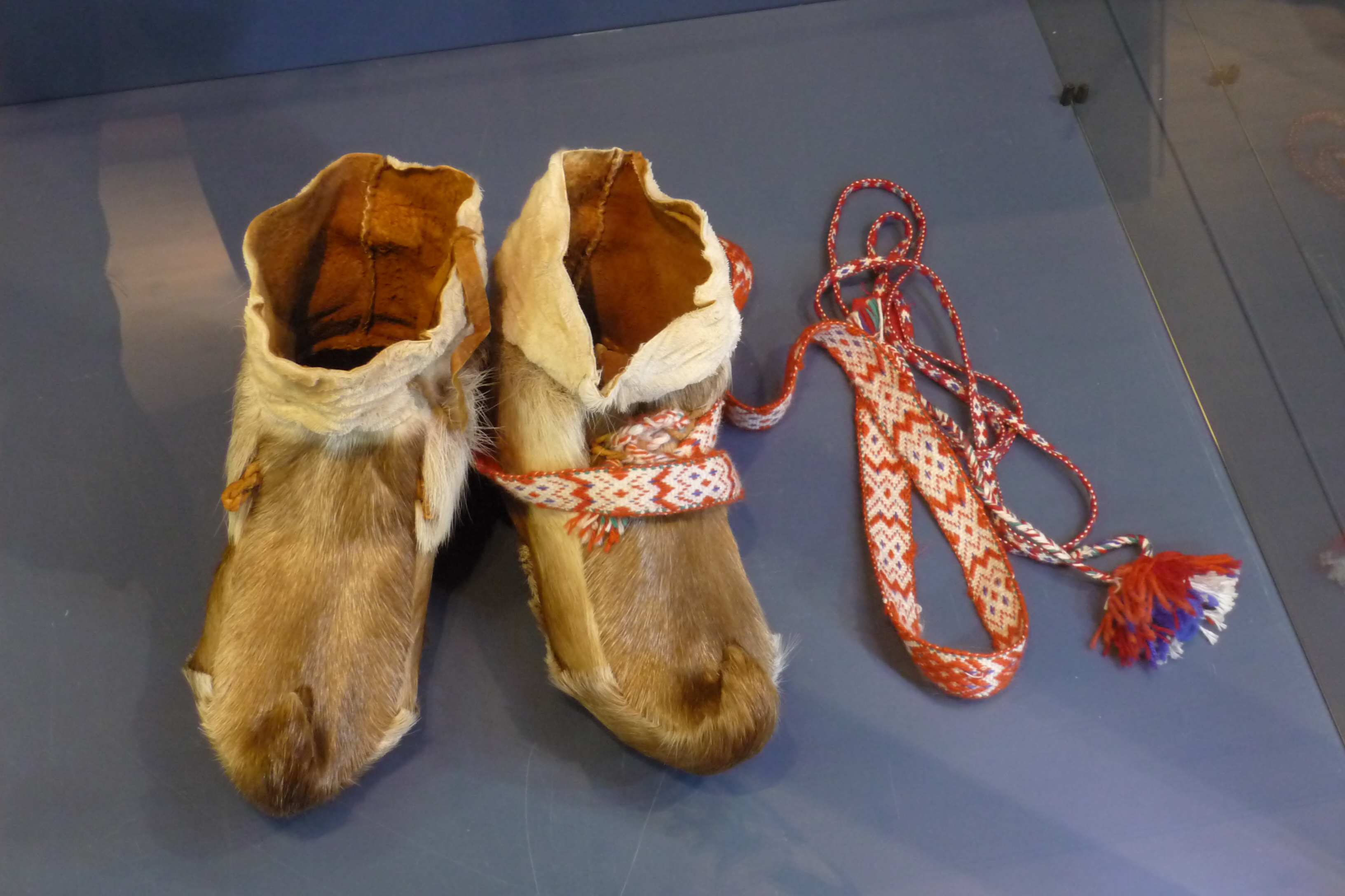 Sami boot, Rovaniemi Arctic Museum.